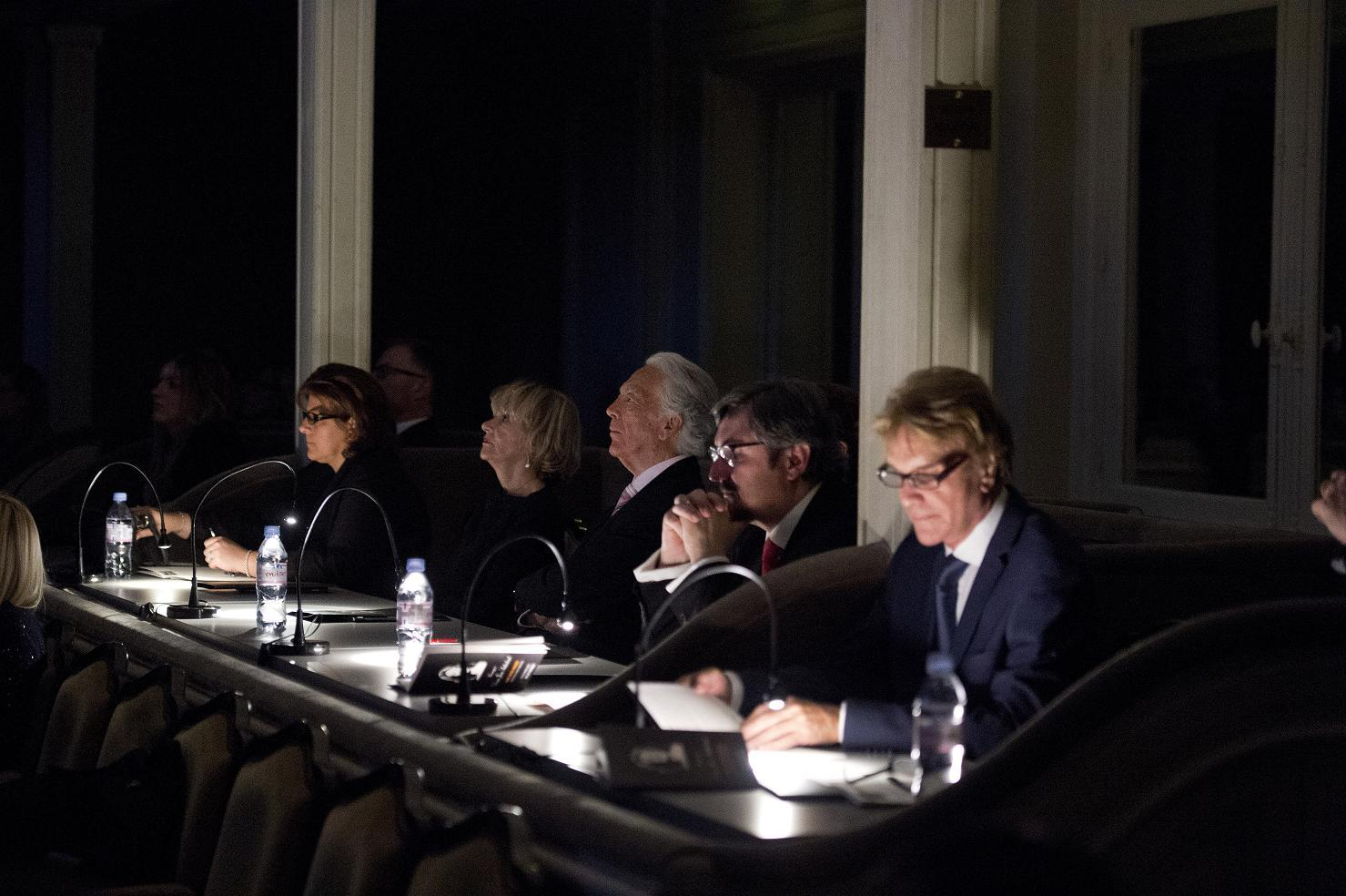 Jury Paris Opera Awards 2014